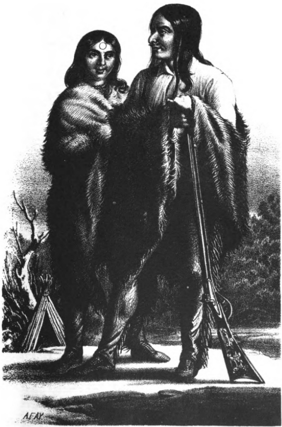 Old Elk and his wife.